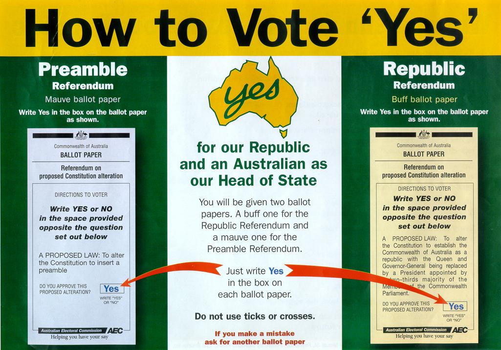 How to Vote card for the popular referendum on Australian Republicanism in 1999. SLWA Ephemera collection PR8680, Online image 006495D